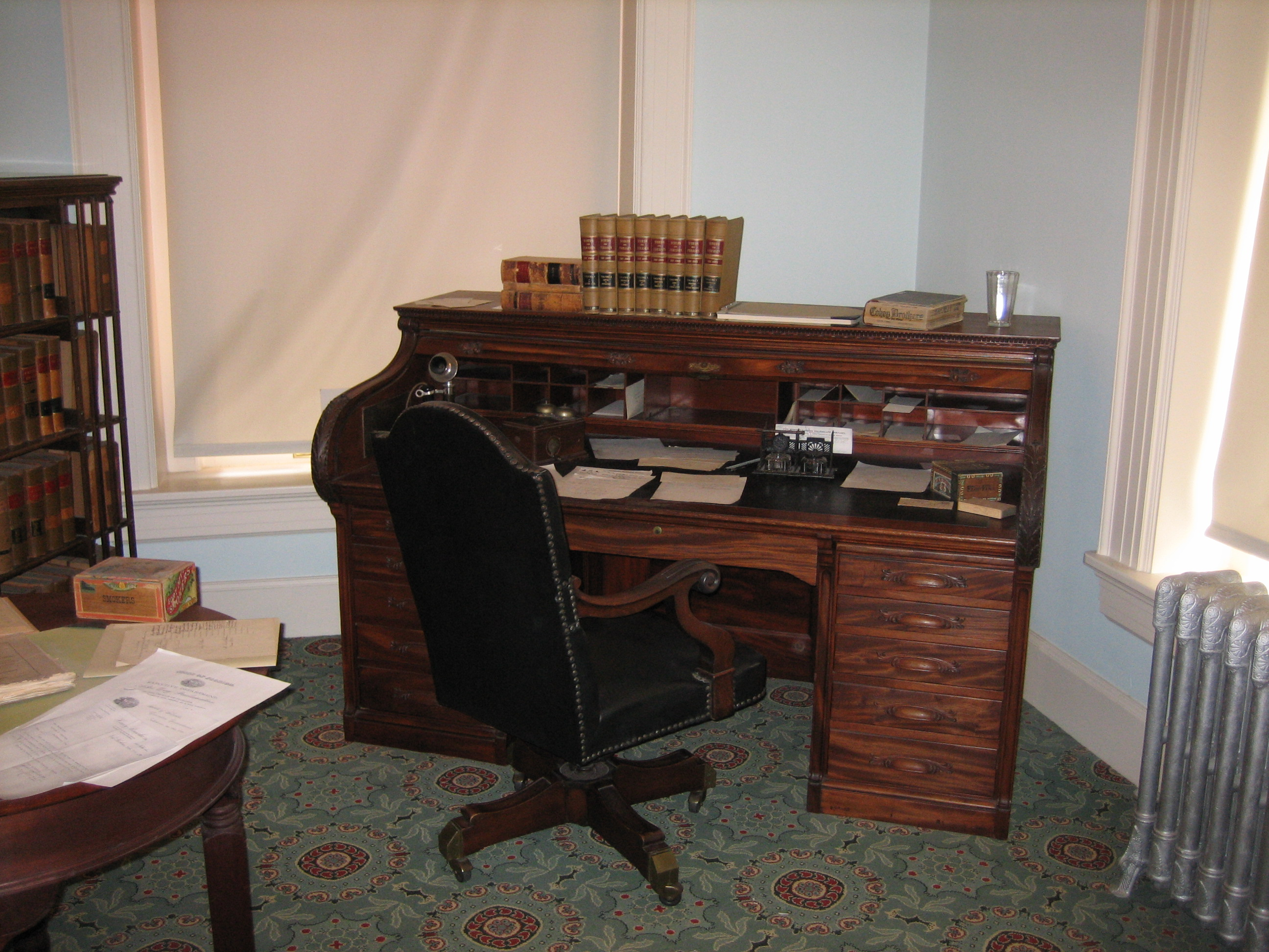 Old Florida State Capitol buildings, Tallahassee, now a museum. Former Governor's desk. Governor's office has been restored to 1903 configuration.